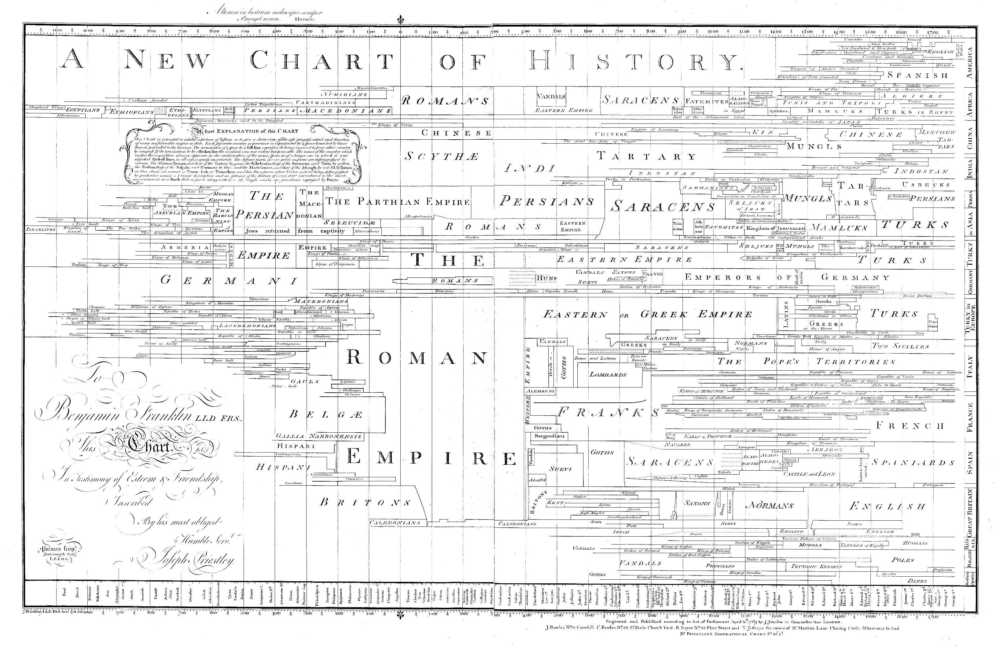 Priestley, Joseph. A New Chart of History. London: Engraved and published for J. Johnson, 1769